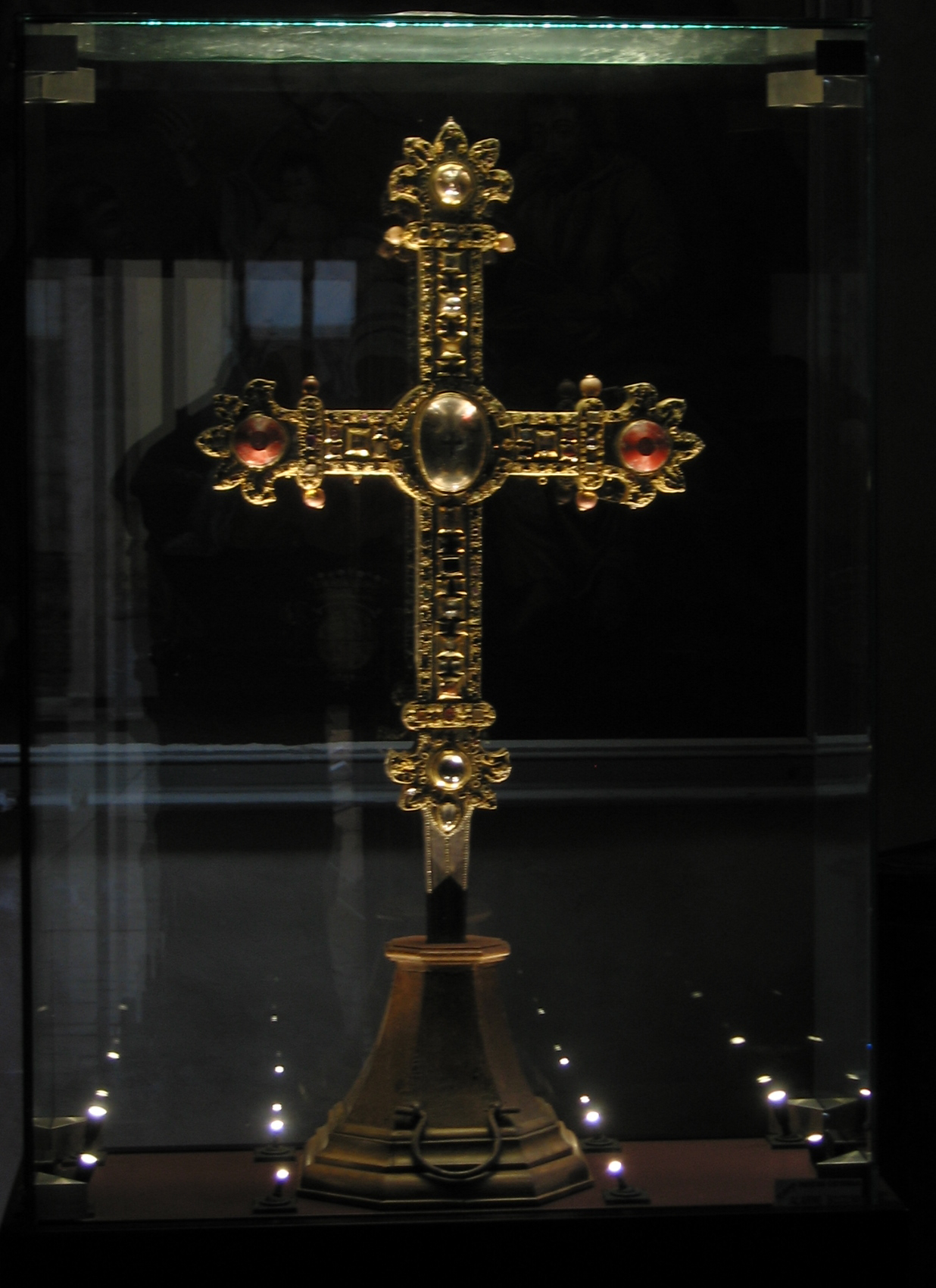 Reliquary of the true cross, Castelnau de Montmiral, start of 14th century.